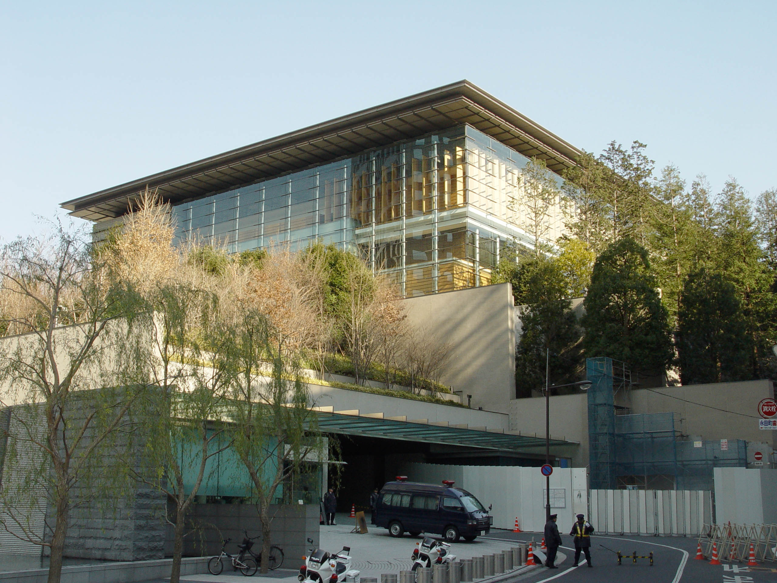 Prime Minister official residence, Japan 総理大臣官邸